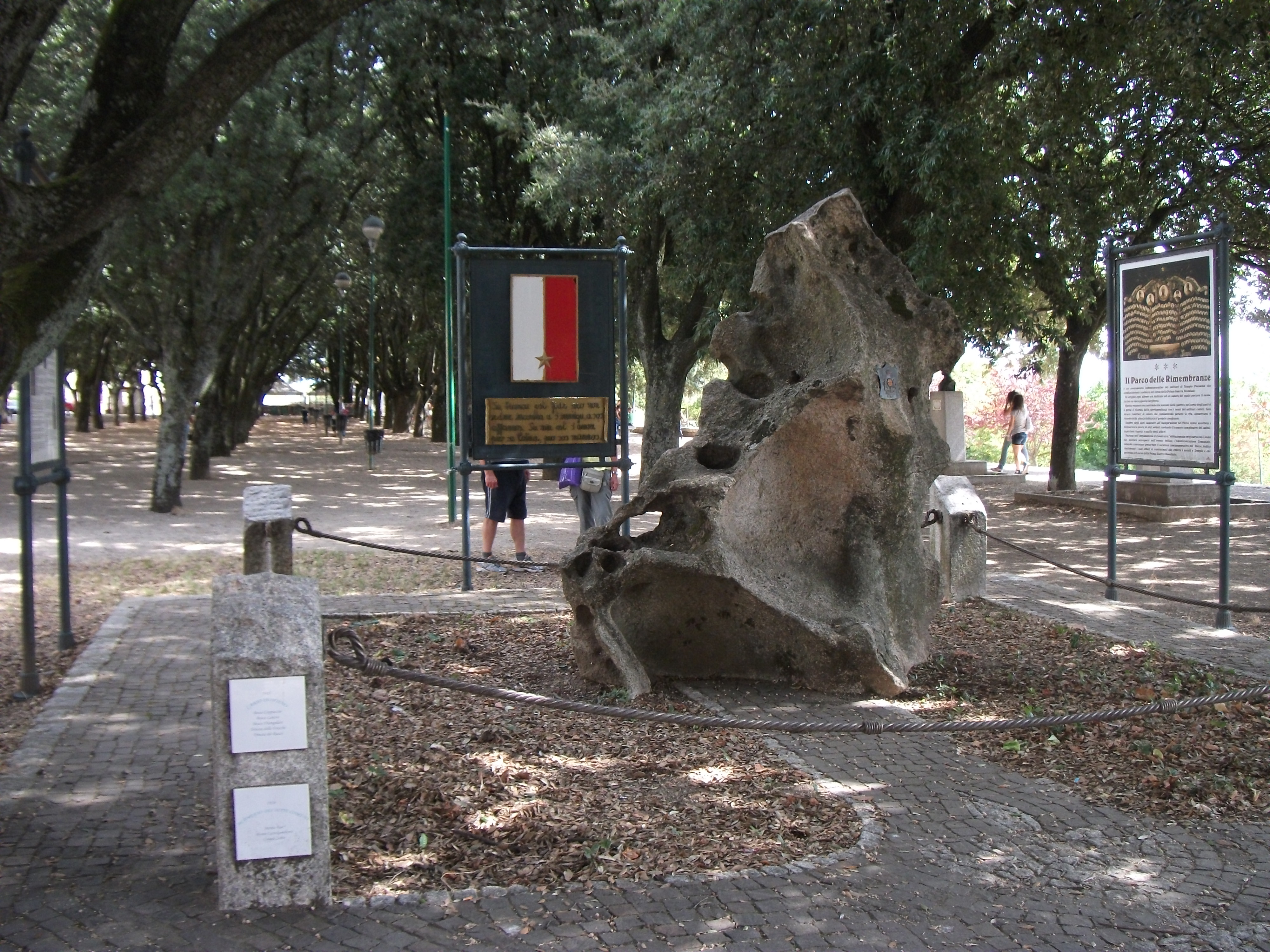 Tempio Pausania, Remembrance park